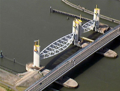 Hartel Barrier